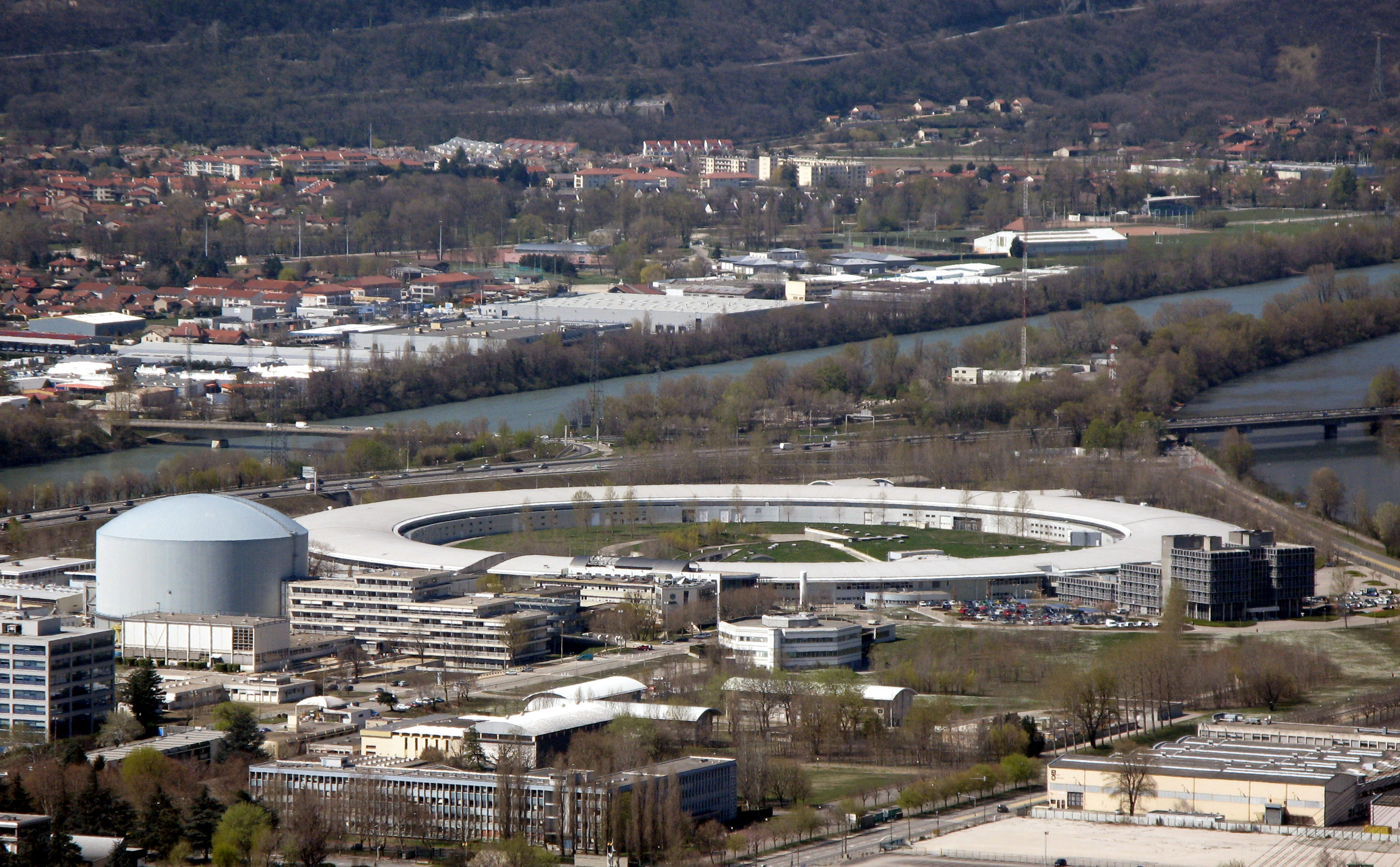 European Synchrotron Radiation Facility in Grenoble